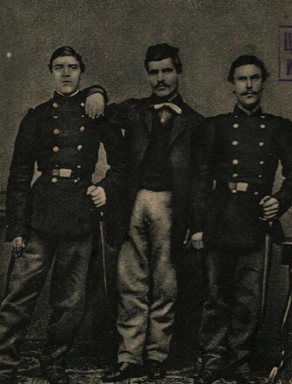 Ivan Andonov's collection photos